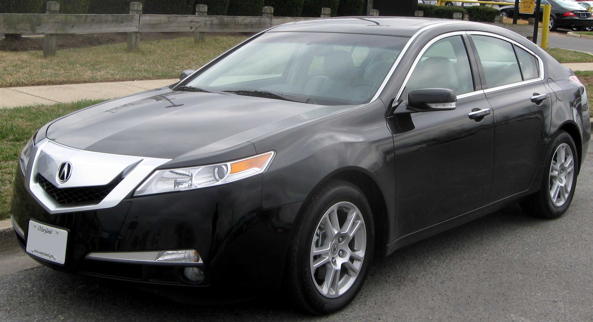 2009 Acura TL photographed in Silver Spring, Maryland, USA.